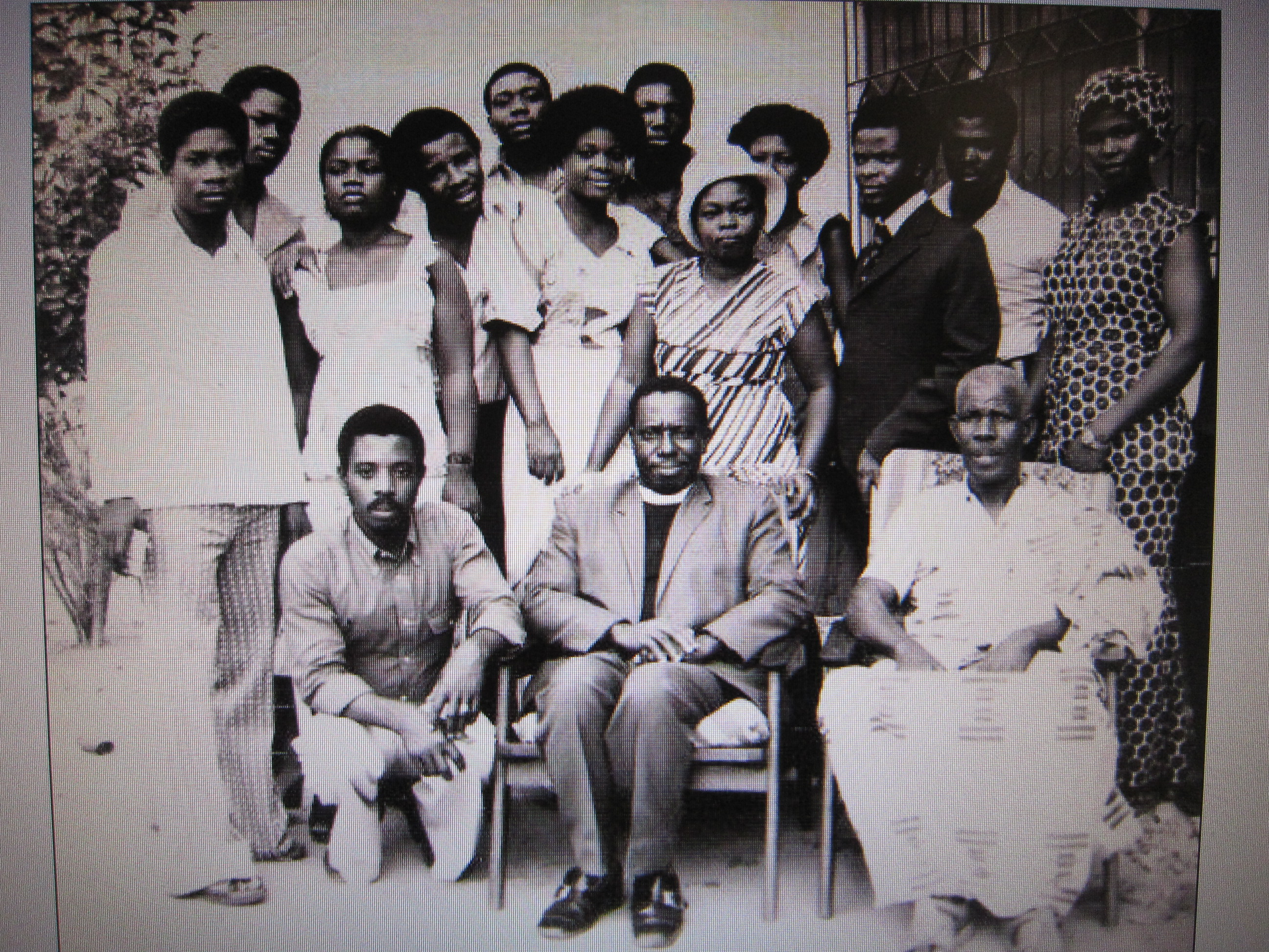 Family photo with Cephas Yao Agbemenu before leaving home for the United States, directly from his photo album.